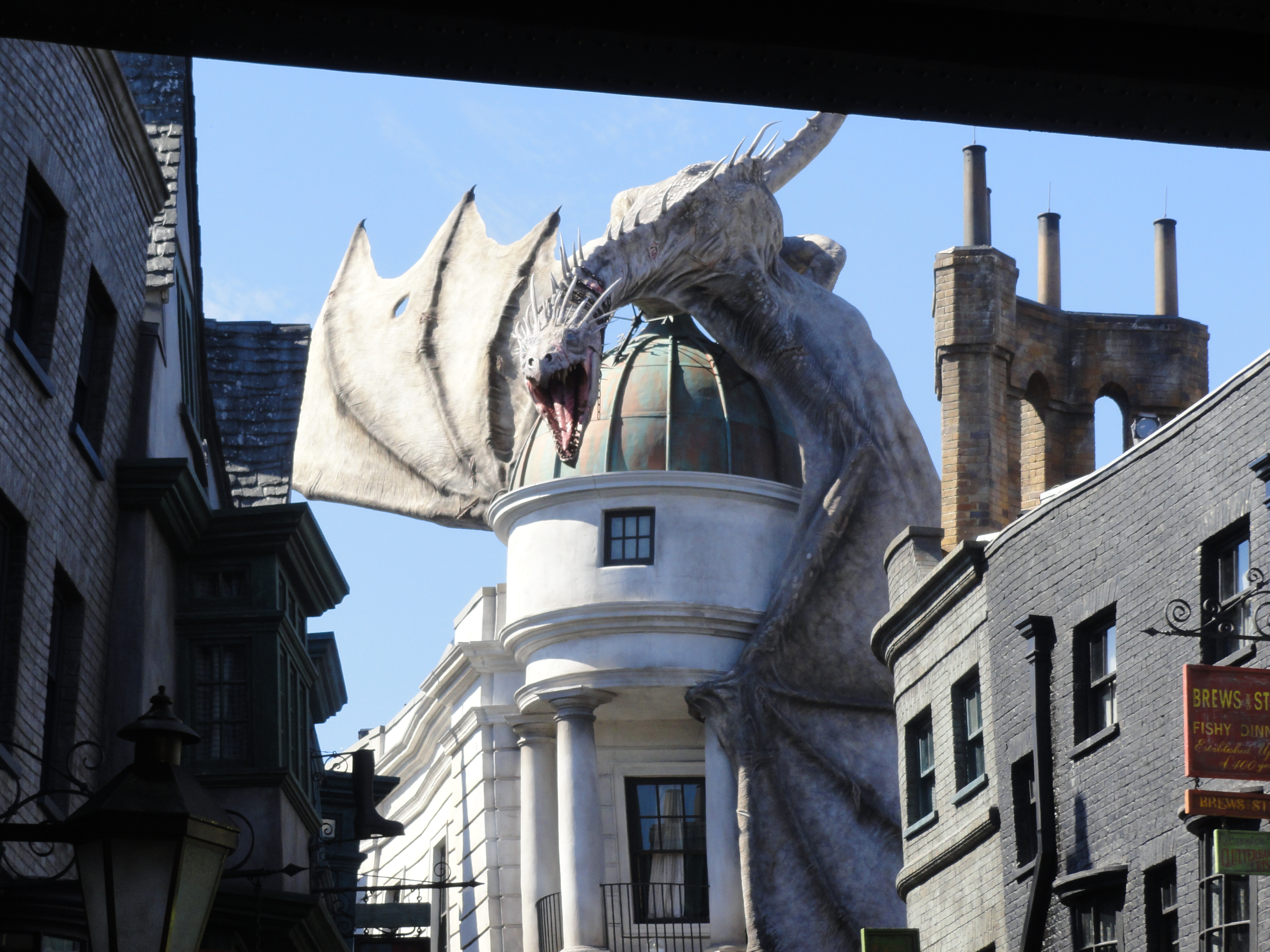 Diagon Alley at Universal Studios Florida